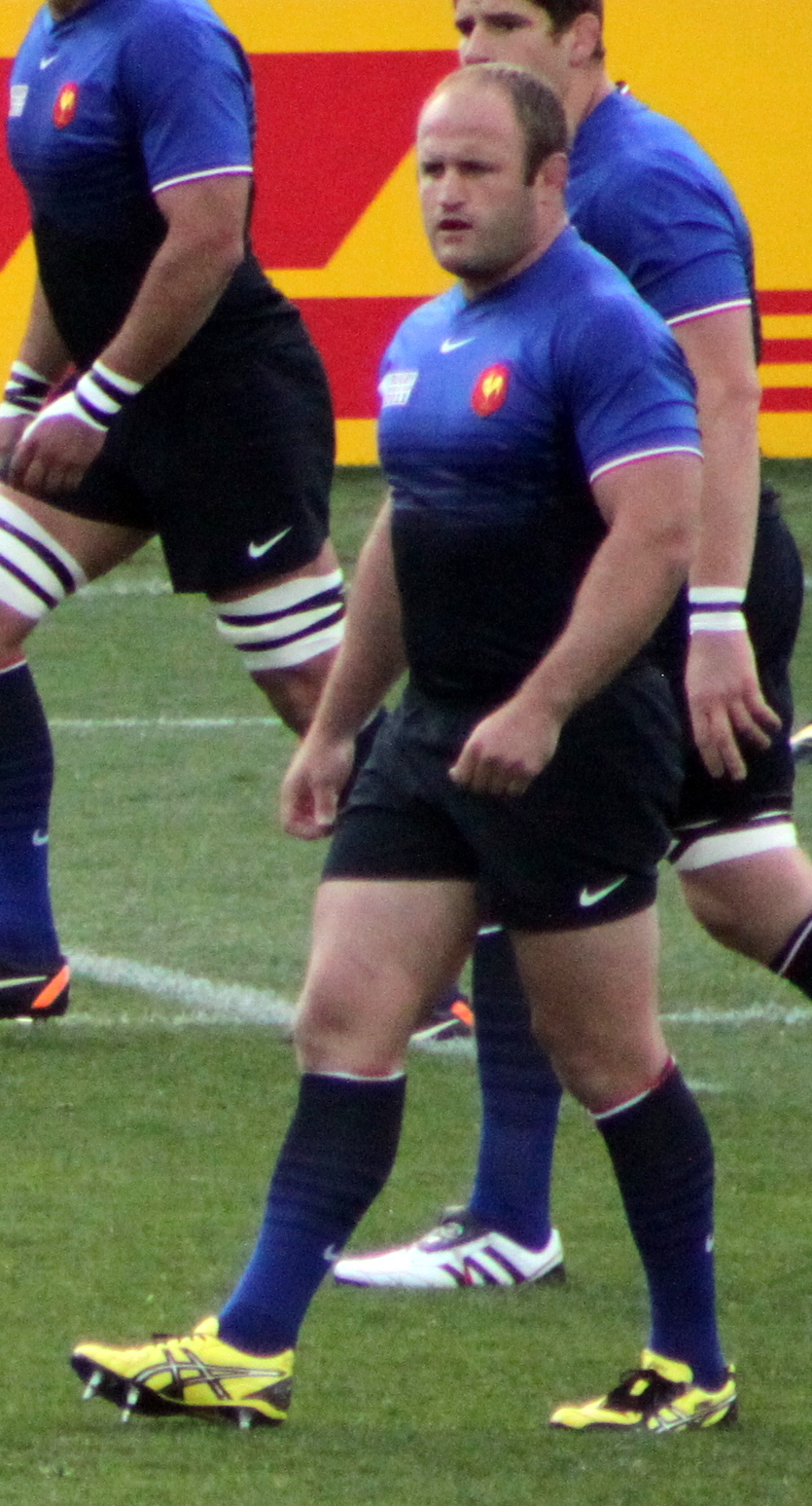 French rugby union player William Servat during 2011 Rugby World Cup match against Tonga.